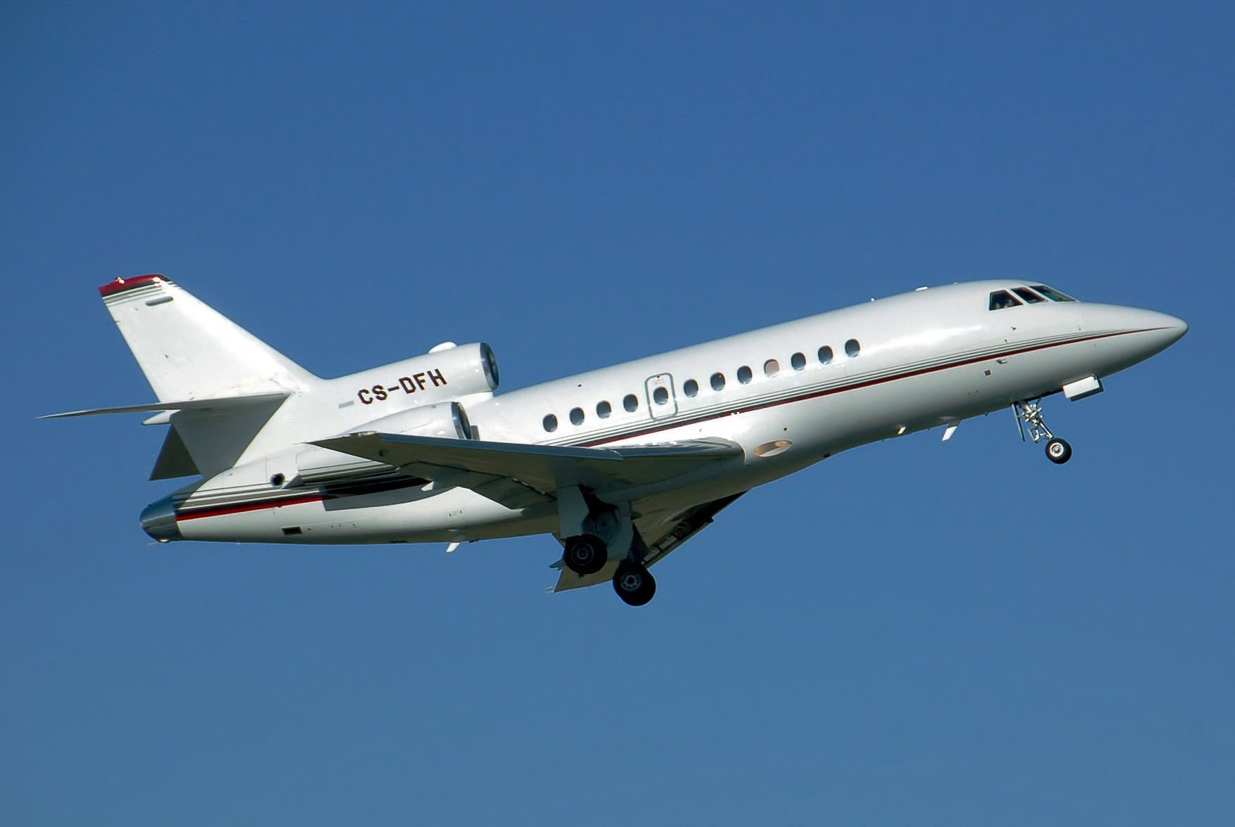 Dassault Falcon 900 business jet (with Portuguese registration CS-DFH) climbs away from London Luton Airport, England. Operator: Netjets Europe. Photographed by Adrian Pingstone in February 2007 and released to the public domain.